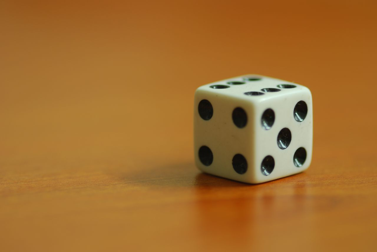 Dice by Nazir Amin